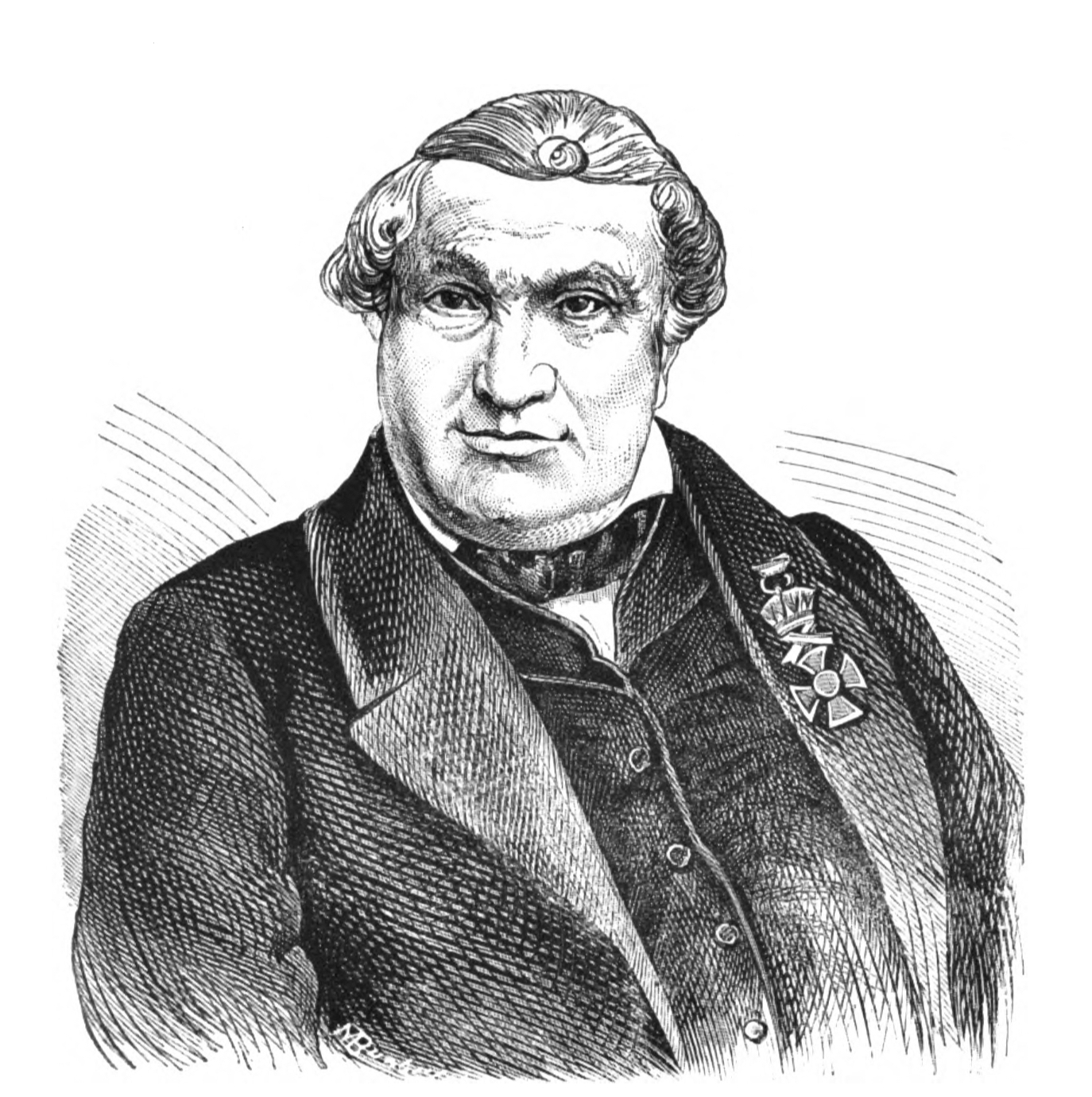 Portrait Philipp Schey von Koromla (1798-1881), Austrian-Hungarian merchant and philanthropist.